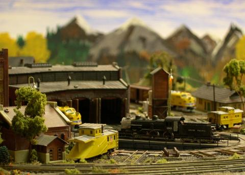 "Val Ease East" turntable and yard scene showing a 2-6-0 "Mogul" steam locomotive being turned. A scratch-built Russell snow plow sits on a turntable spur. Scene shot on the Val Ease Central Railroad (VECRR) layout in Z-scale (1:220).